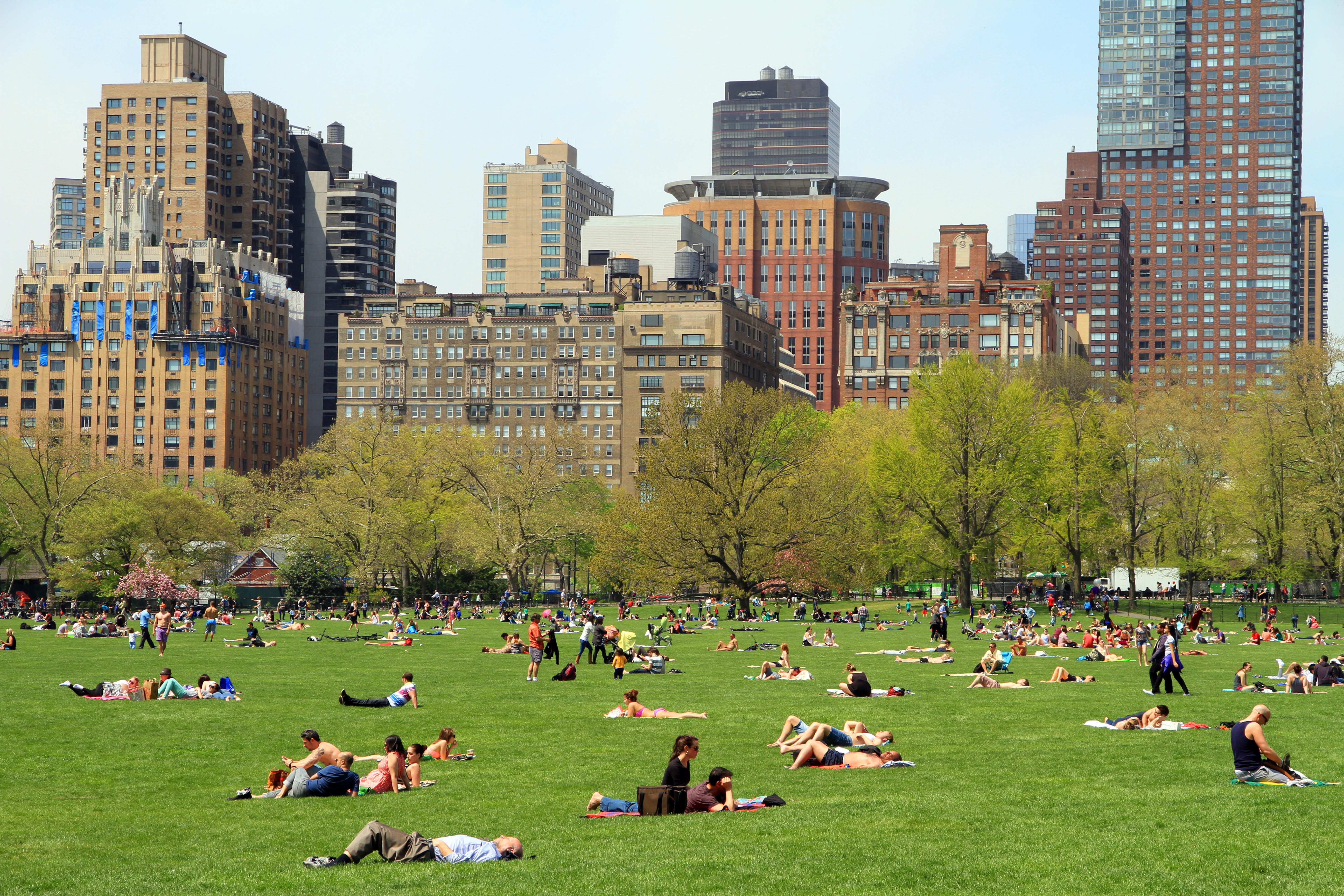 Sheep Meadow